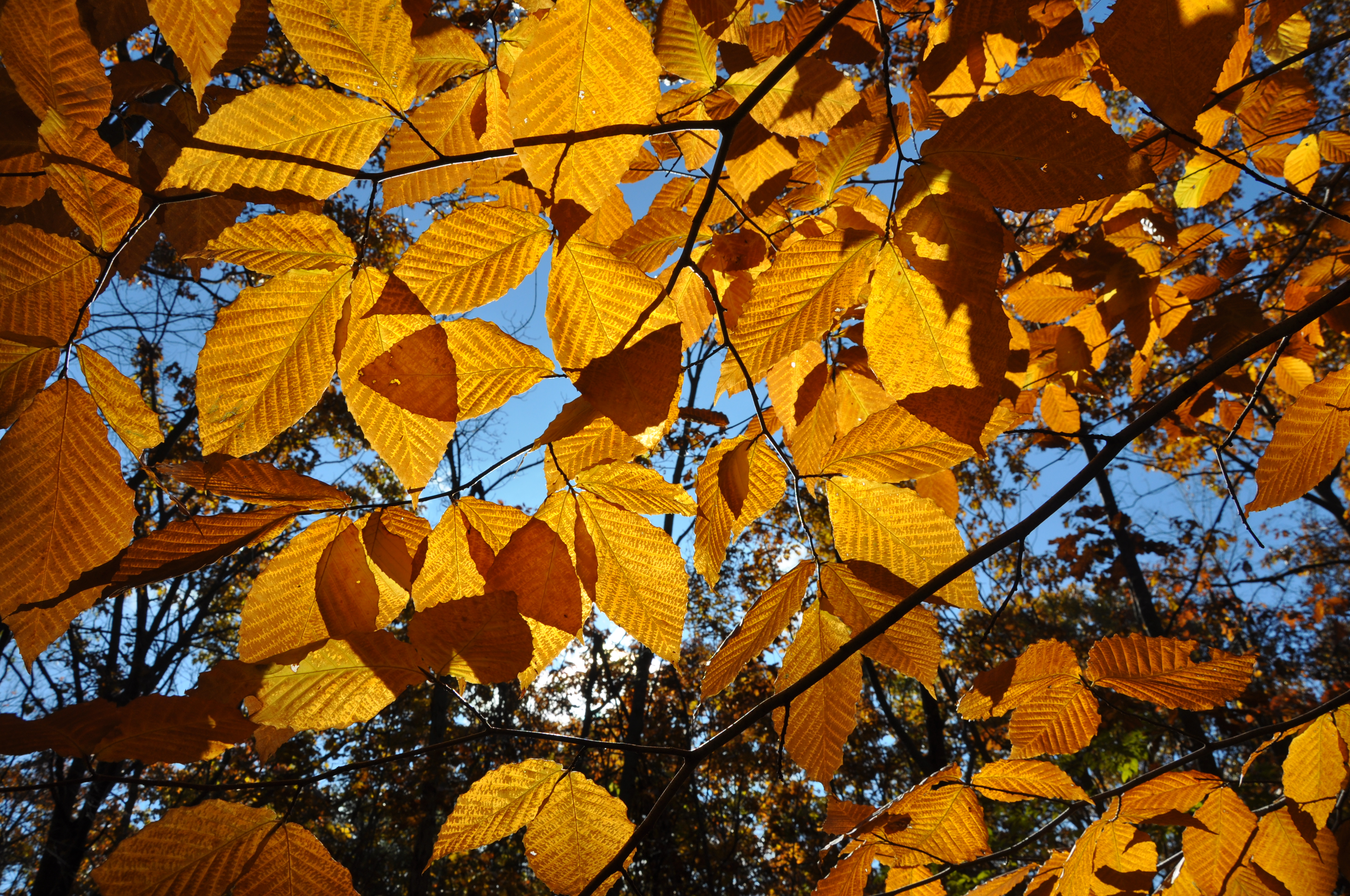 fall foliage. Wachusett Meadow, Massachusetts, USA.